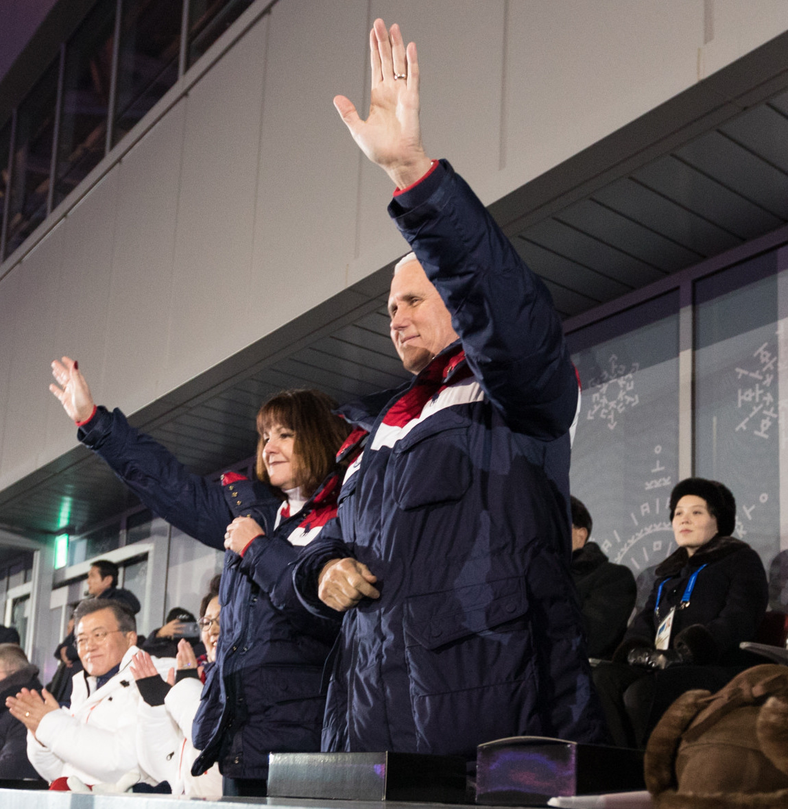 Vice President Mike Pence and Mrs. Karen Pence attend the 2018 Winter Olympics Opening Ceremony at the Pyeongchang Olympic Stadium, Friday, February 9, 2018, in Pyeongchang, South Korea. (Official White House Photo by D. Myles Cullen)